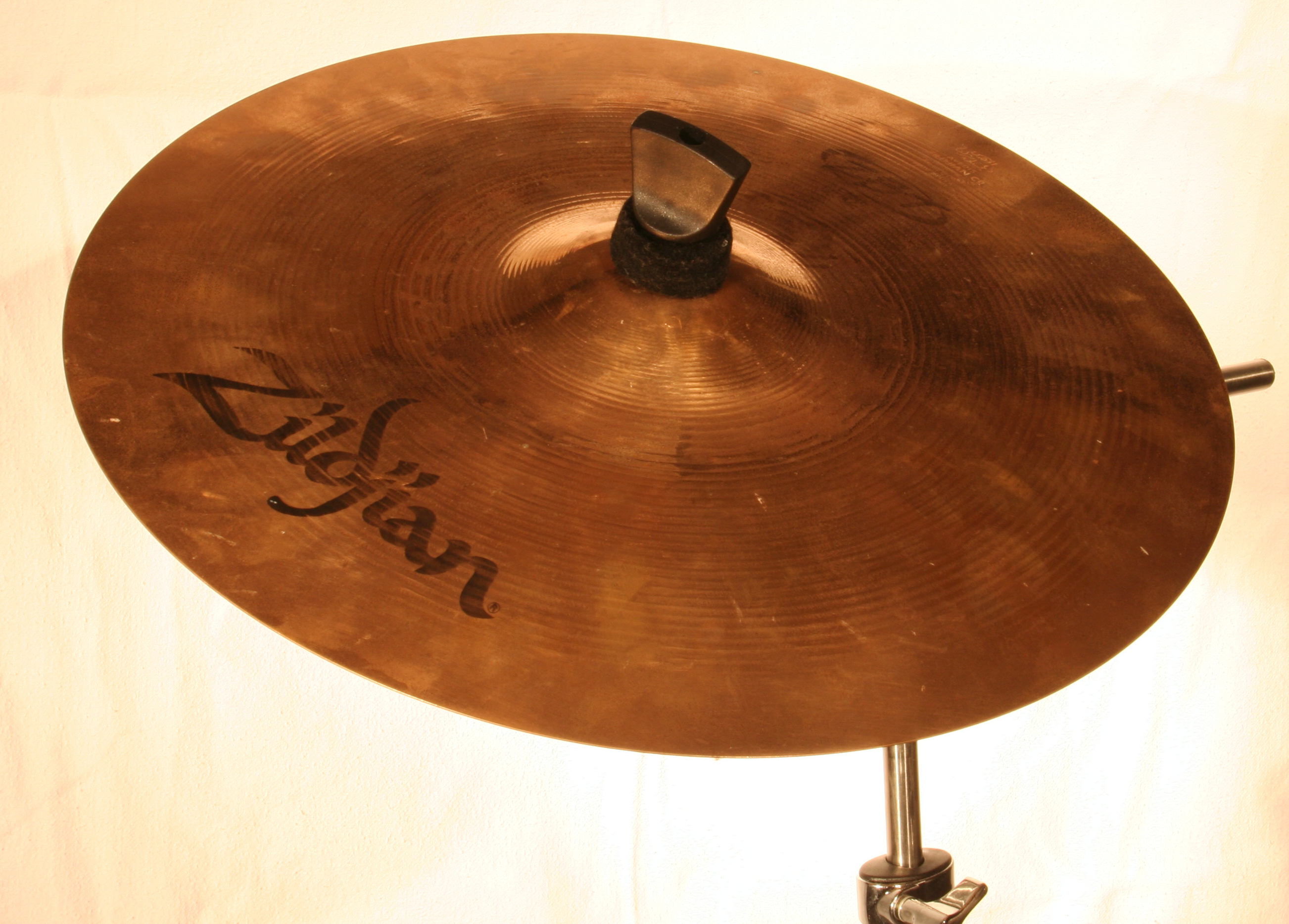 14 inches Crash Cymbal made by Zildjian